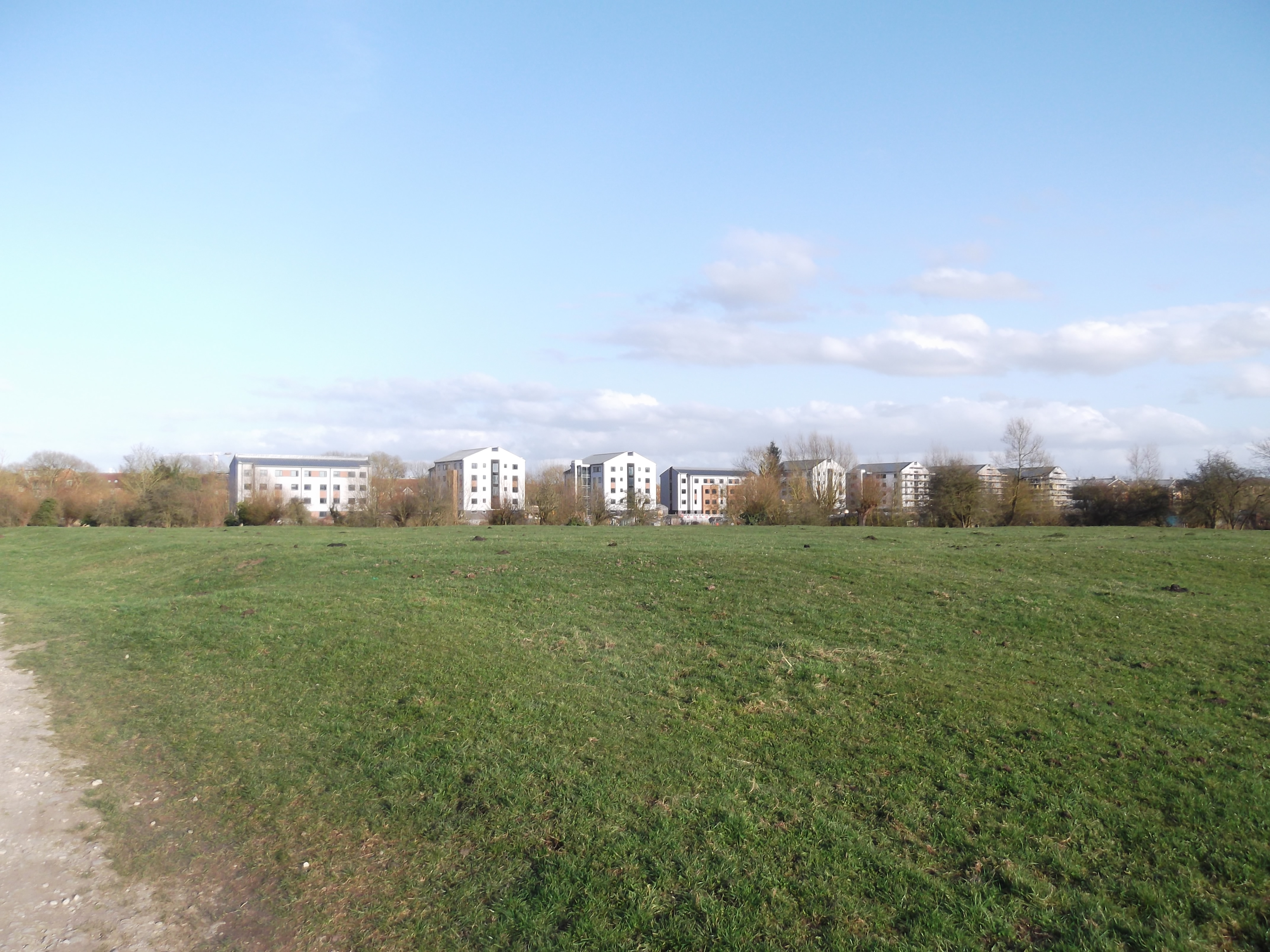 Castle Mill student accommodation blocks of Oxford University from Port Meadow, Oxford, England.